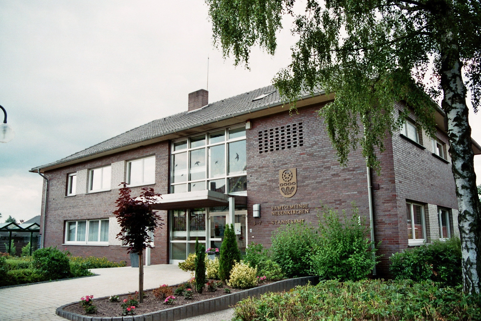 Administrative building of the Samtgemeinde Neuenkirchen (a kind of "collective municipality", typical for Lower Saxony) in Neuenkirchen, administrative division of the Samtgemeinde Neuenkirchen, Landkreis Osnabrück, Lower Saxony, Germany.